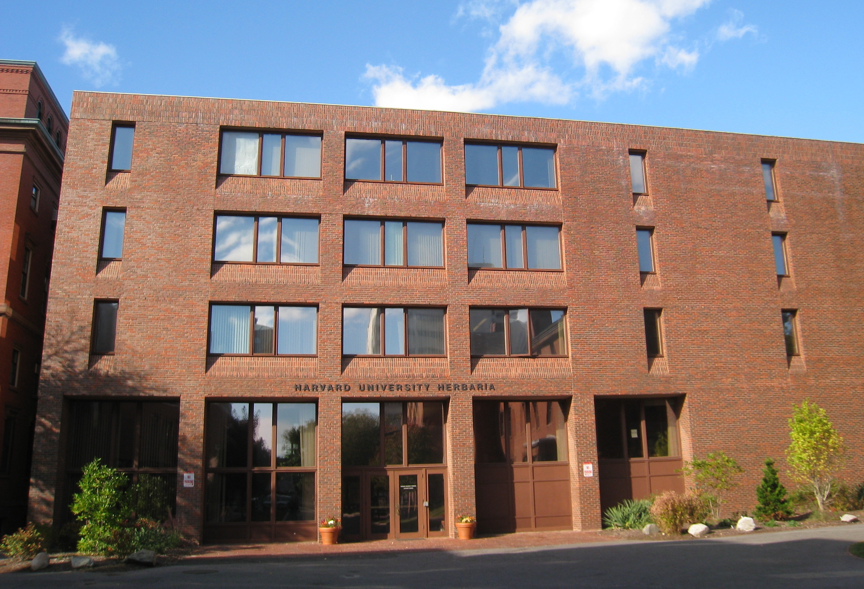 Front facade of Harvard University Herbaria building, 22 Divinity Avenue, Cambridge, Massachusetts, USA. I took this photograph.